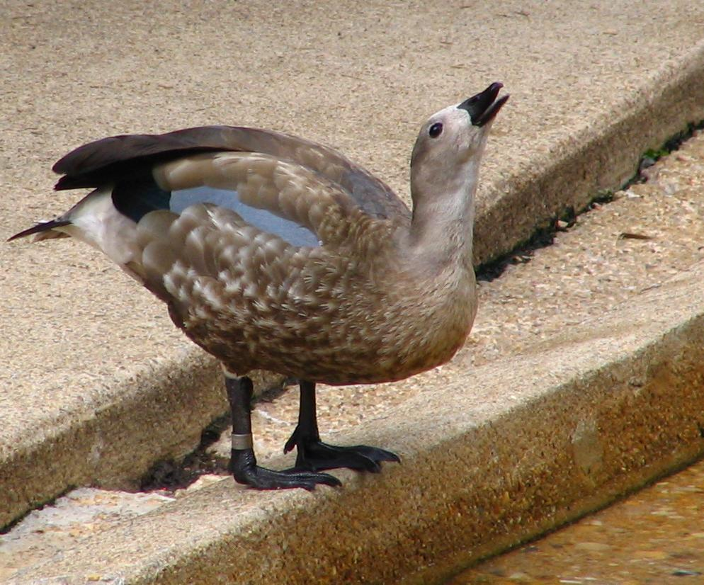 A Blue-winged Goose at Maryland Zoo, Baltimore, Maryland, USA. This bird was taking a drink at the penguin exhibit.